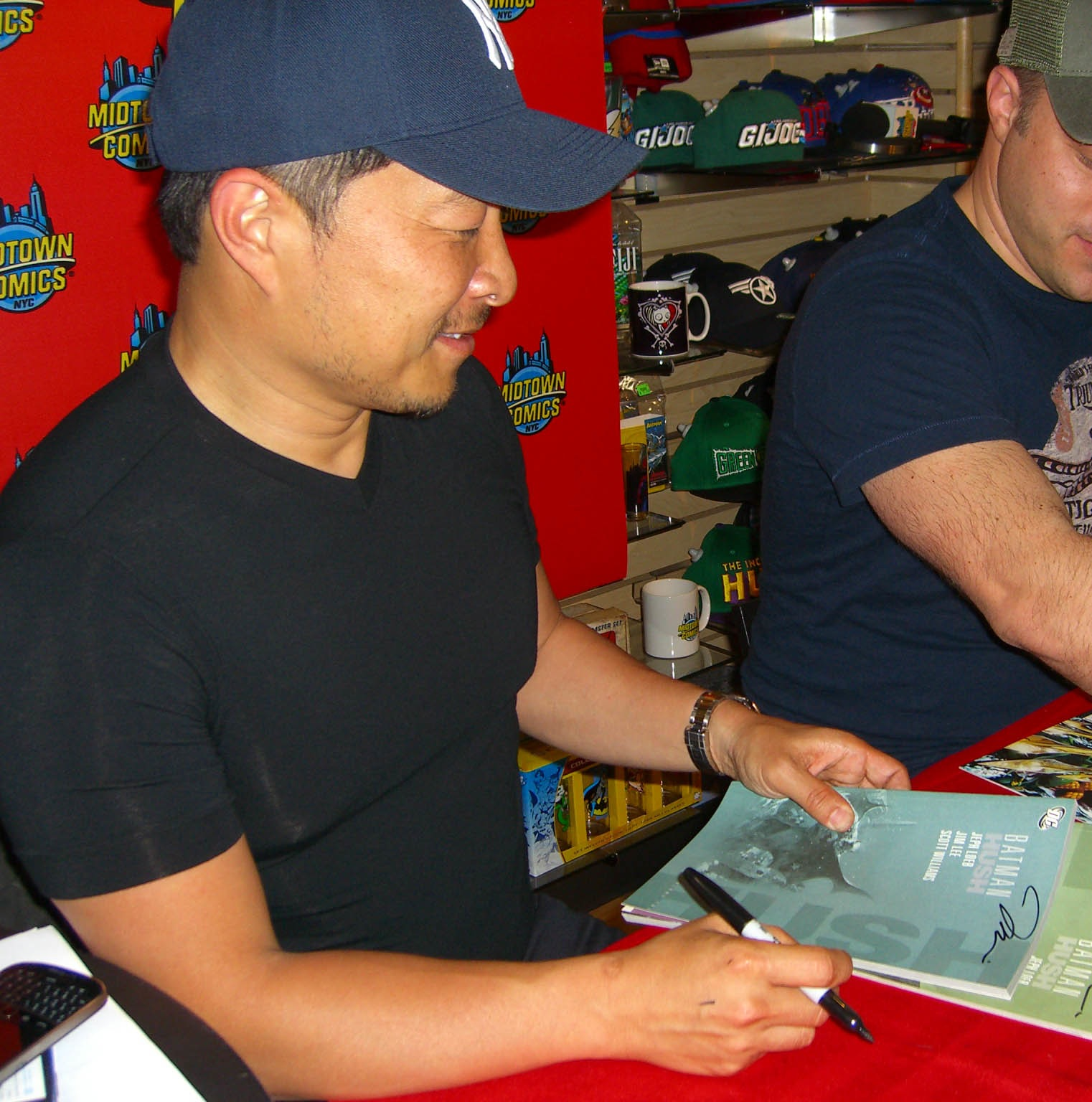 Comic book artist Jim Lee at a May 11, 2012 signing at Midtown Comics Downtown in Lower Manhattan for Justice League Vol. 1: Origin, the hardcover collection of the first six-issue story arc of Justice League volume 2, the monthly series whose debut in September 2011 initiated The New 52, the company-wide relaunch of all of DC Comics' superhero titles. In the photo, Lee is signing a copies of the two-part softcover collected edition of Batman: Hush. This photo was created by Luigi Novi. It is not in the public domain, and use of this file outside of the licensing terms is a copyright violation.